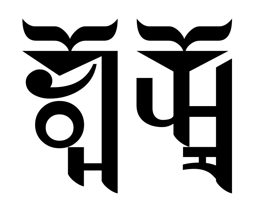 Monggol in Soyombo bicig